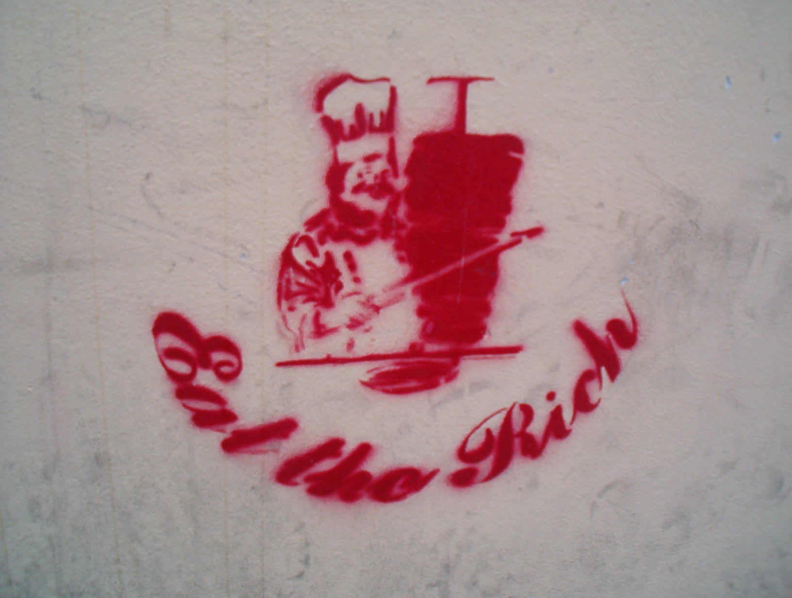 "Eat The Rich" graffiti